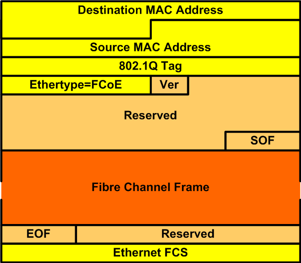 FCoE frame format